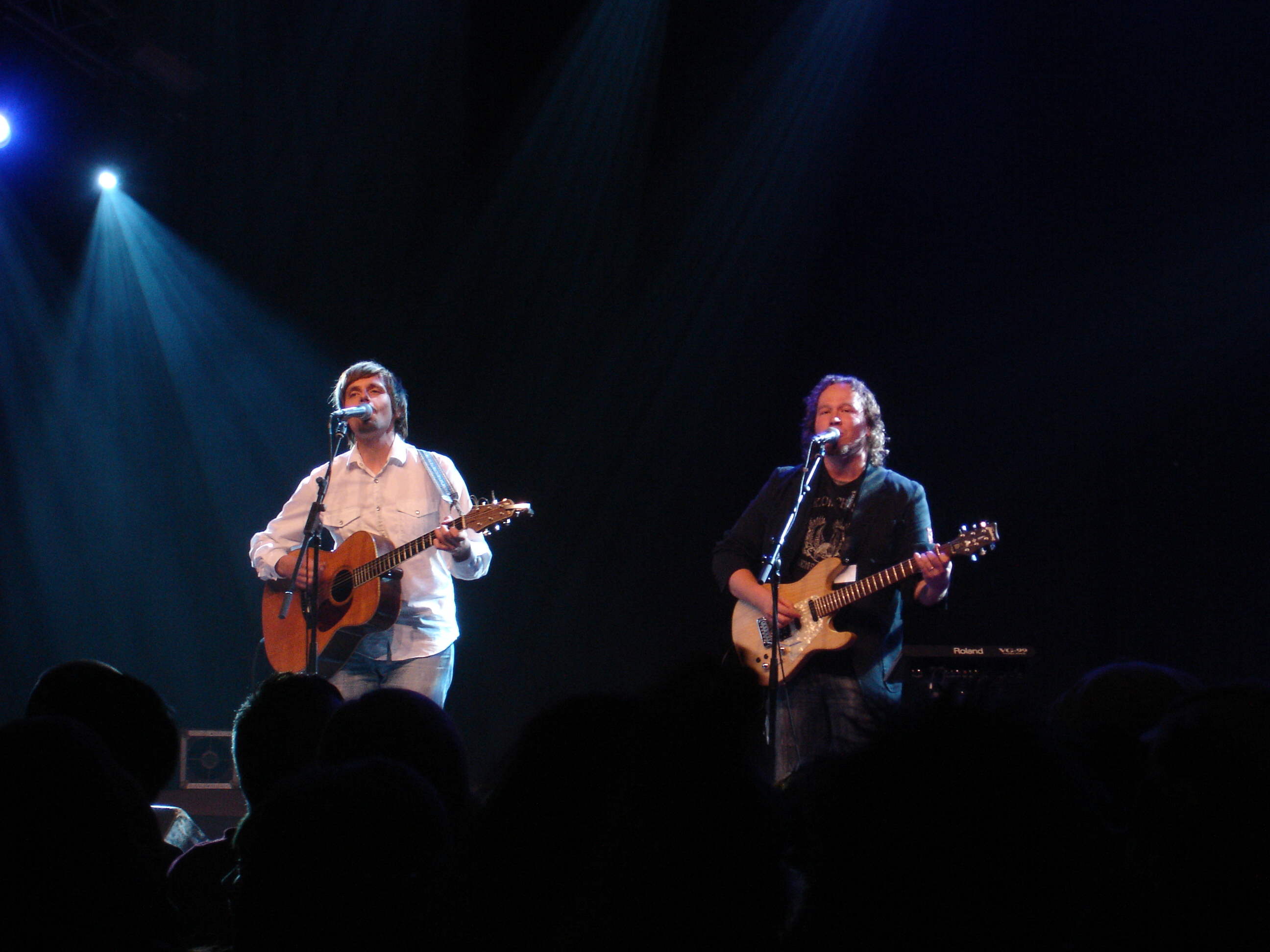 MGtH (Mikko Goes to Heaven) at Ristirock 2008